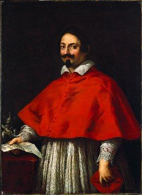 Cardinal Pietro Maria Borghese (1599-1642)